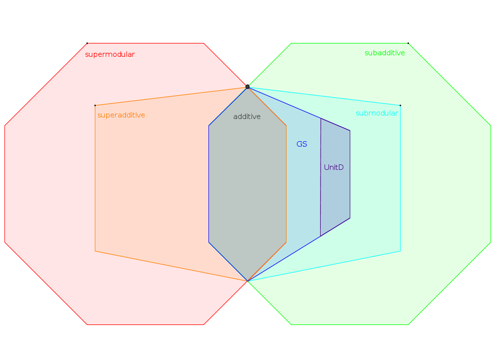 Containment relations between several common utility functions